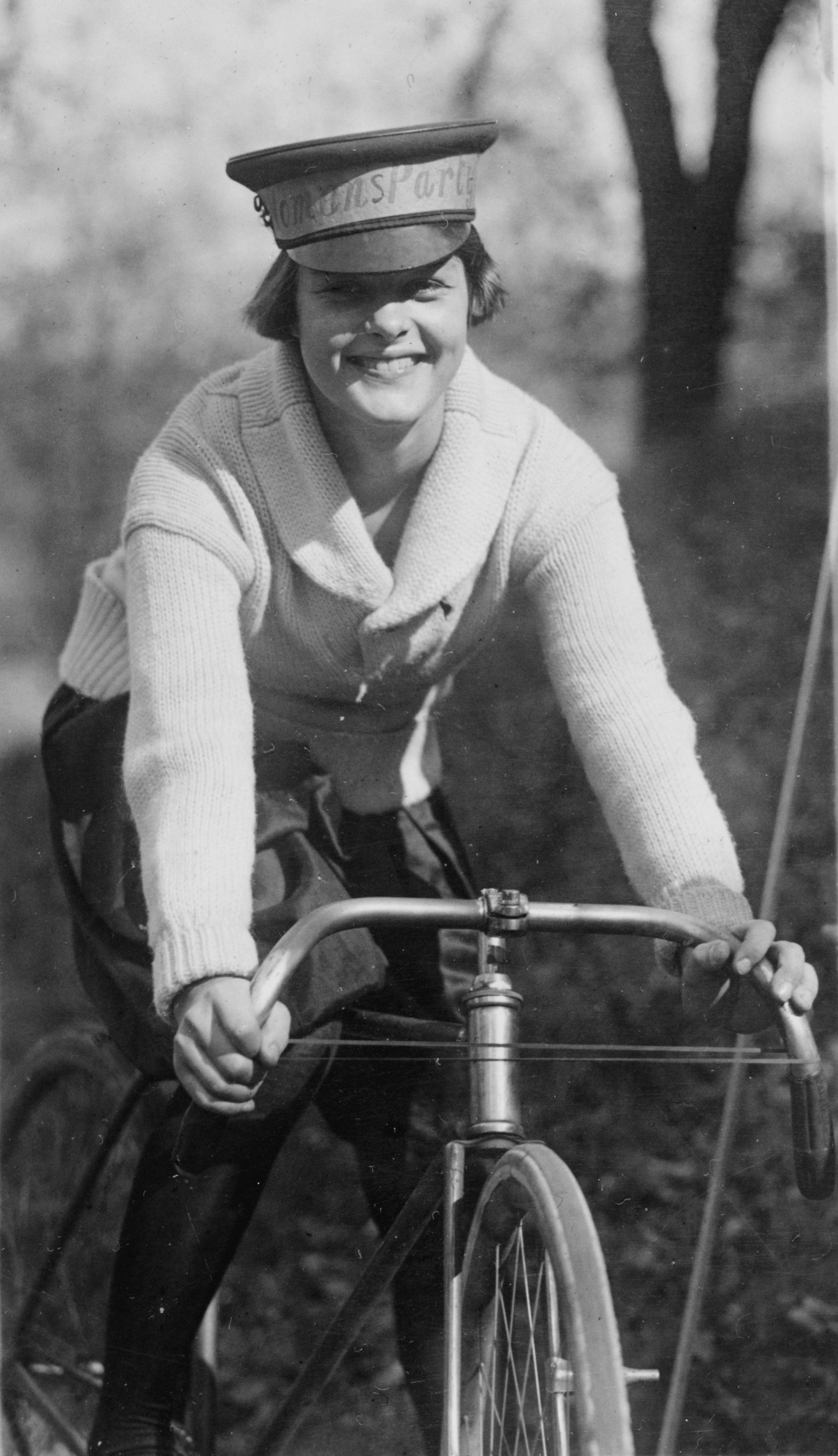 Title: Julia Obear, messenger girl at the National Women's [i.e. Woman's] Party headquarters Abstract/medium: 1 photographic print.